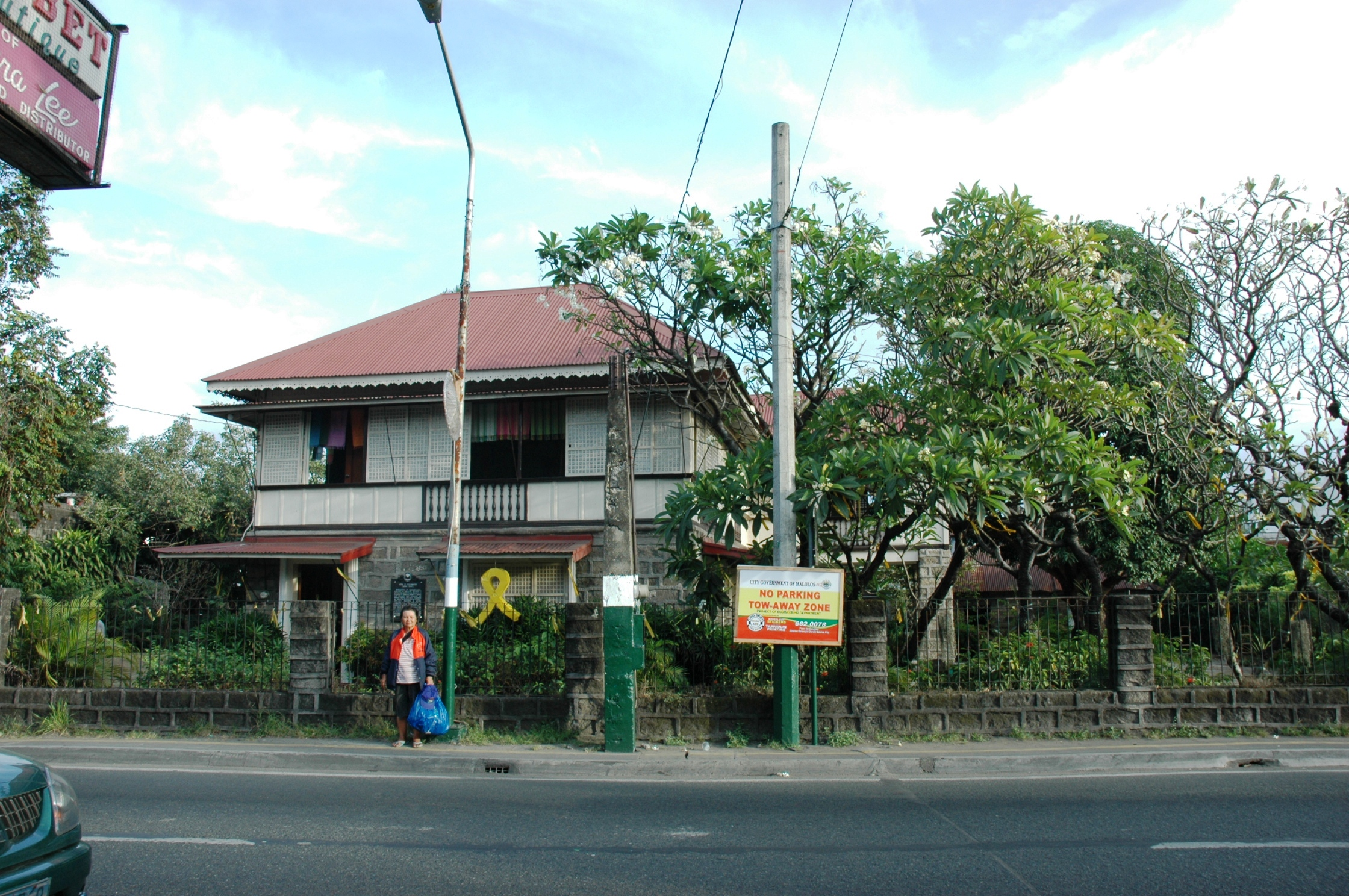 A Malolos native waiting for a jeep to ride one afternoon, January 6, 2011 in front of the historical, landmark Jose Cojuangco Mansion, located at Paseo Del Congreso near Barasoain Church, the old and original house of Jose Chichioco-Cojuangco, Sr.